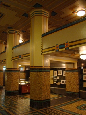 Treasureroom, De Bazel Amsterdam, city archive